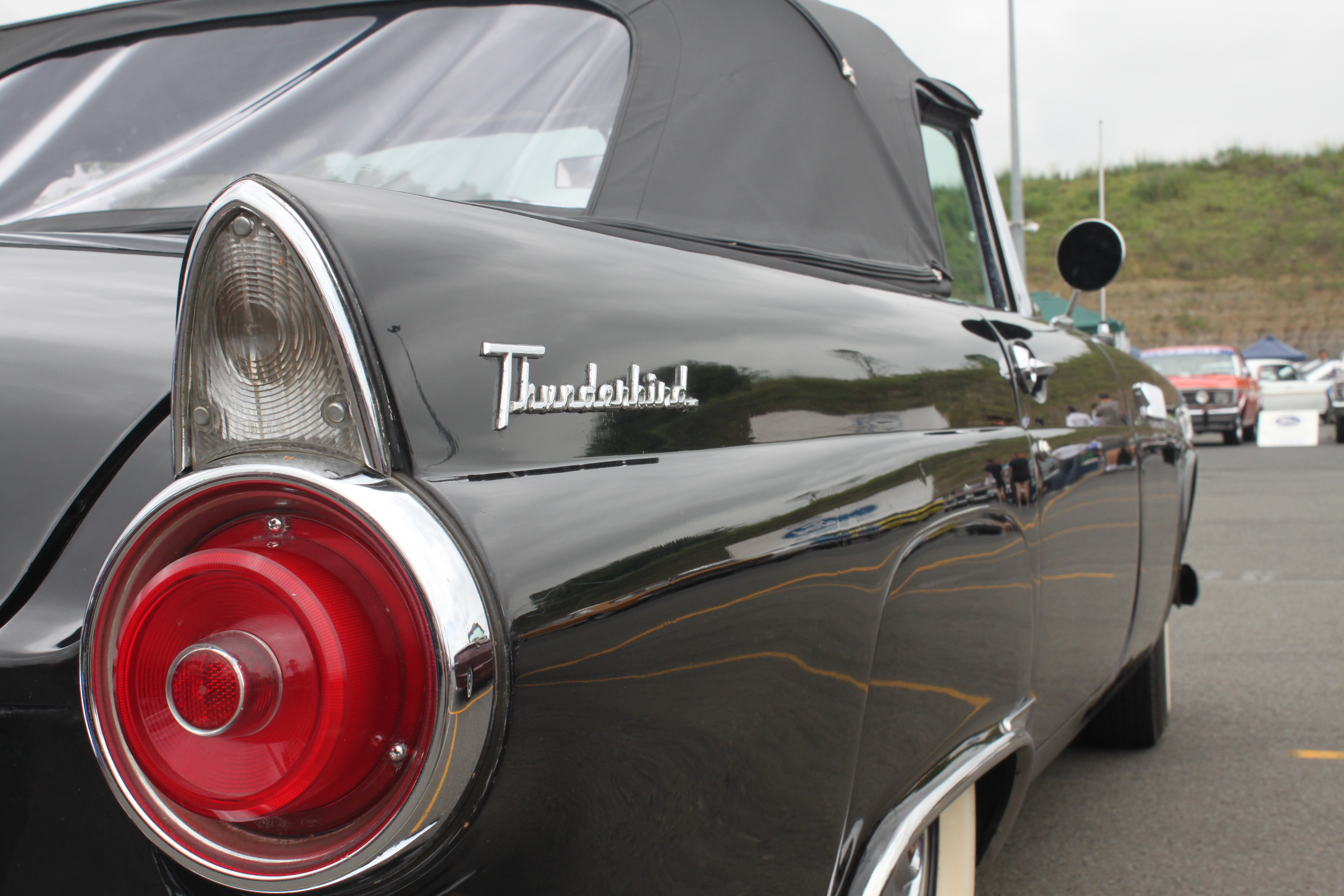 All Ford Day, Eastern Creek NSW, November 2015